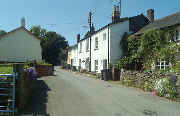 Christow Village. Part of the village of Christow, looking up the hill towards the church.